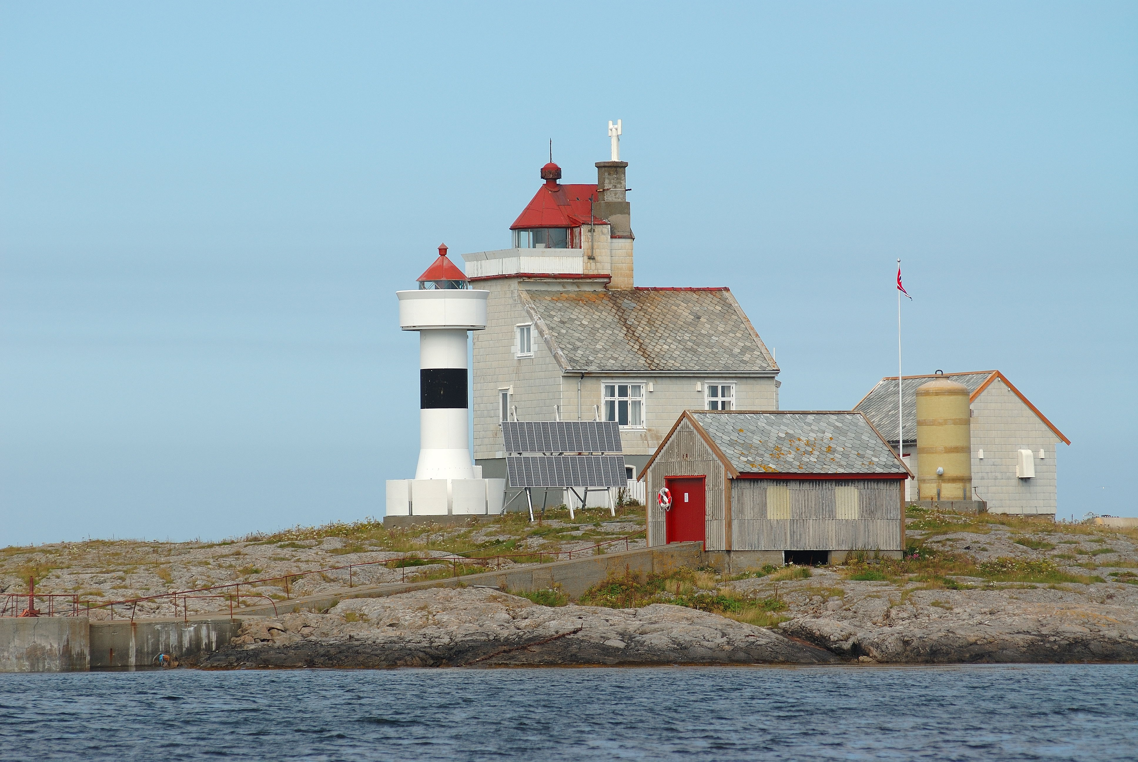 Vingleia lighthouse seen from south.